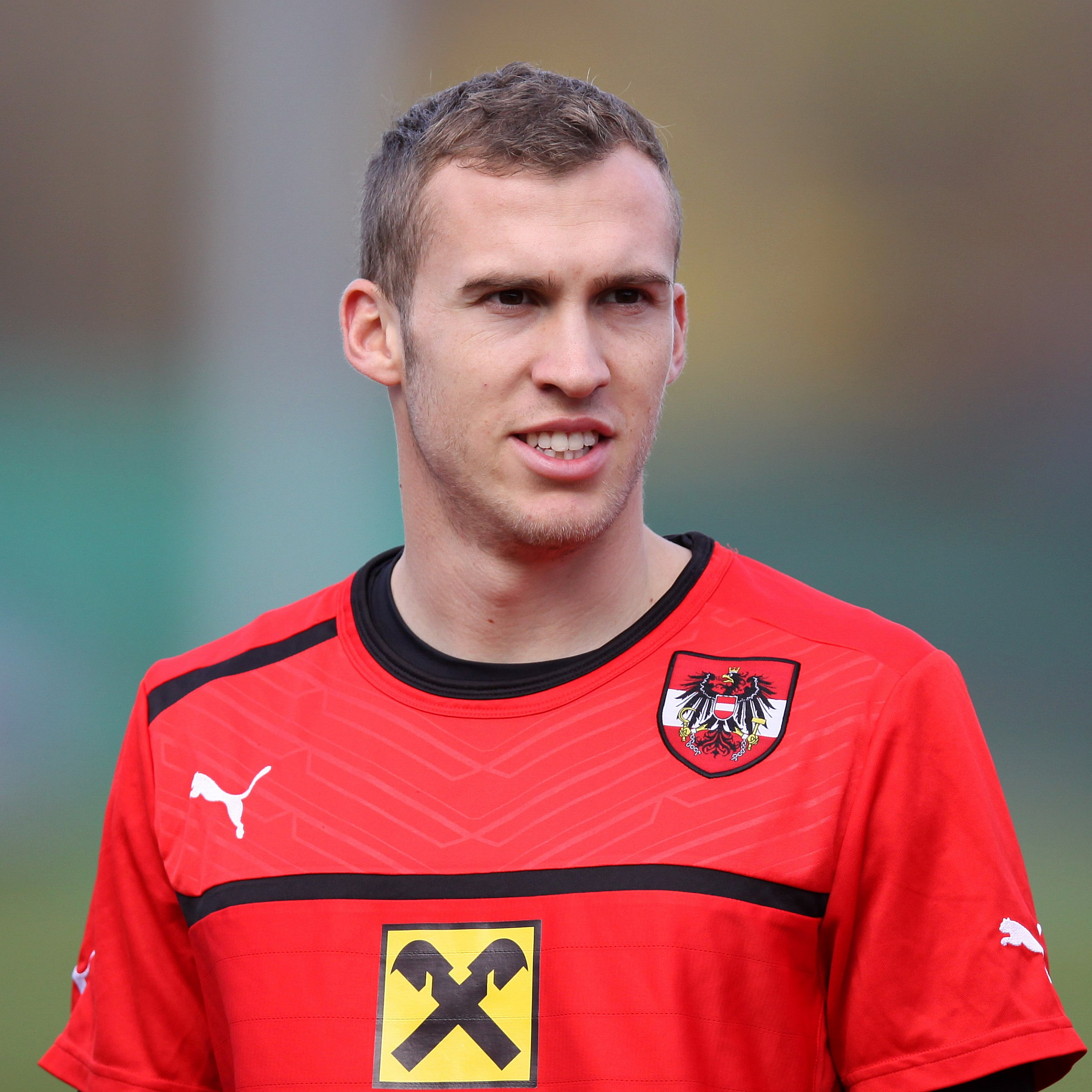 Teamcamp of the Austria national under-21 football team from 9. to 14. Novembber 2015 in Bad Erlach – The photo shows Lukas Jäger (SC Rheindorf Altach).